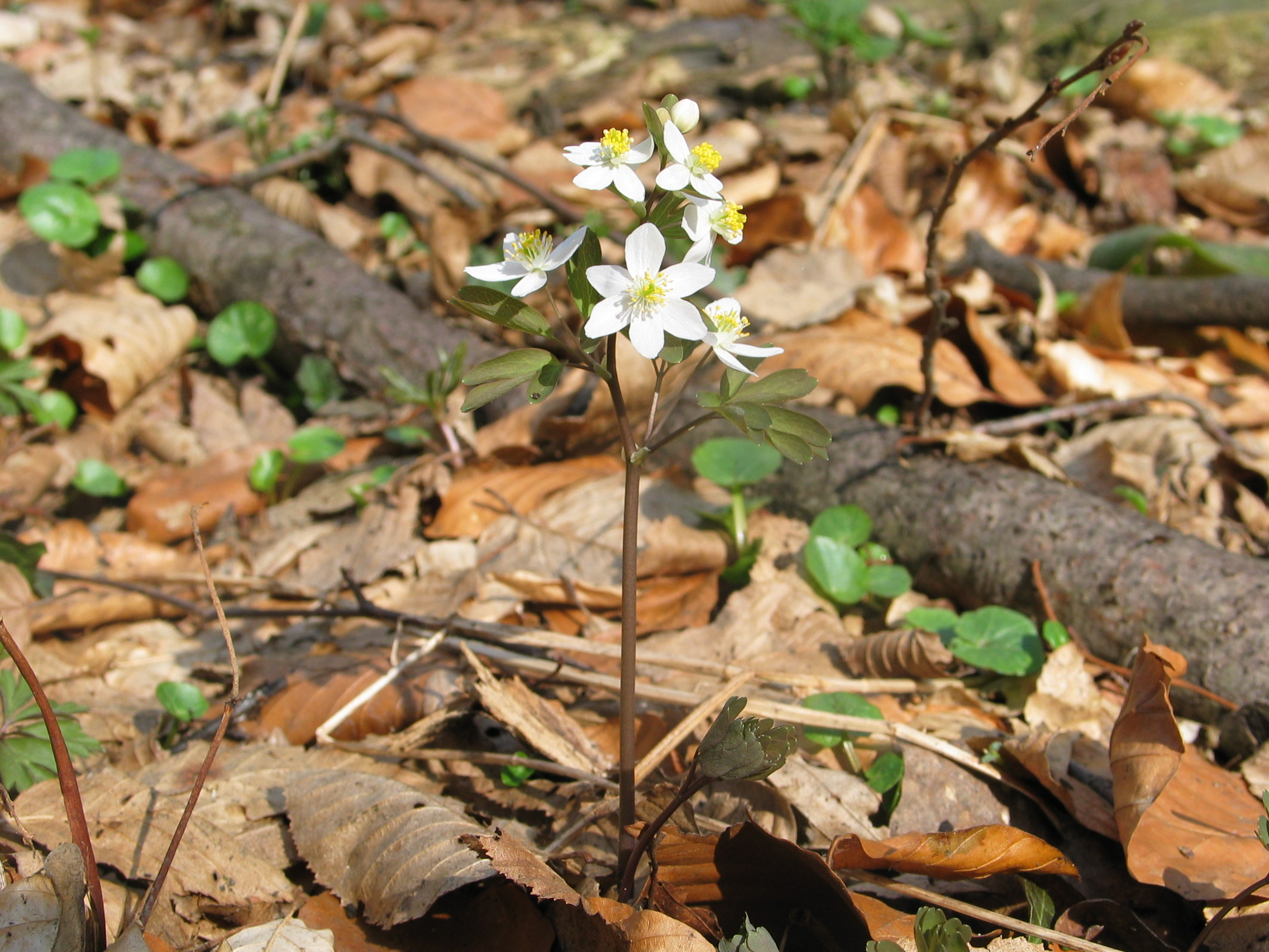 Isopyrum thalictroides. Tilaj, West Hungary, 2005-03-27. Note: Some flowers have plus petals (6 instead of 5).